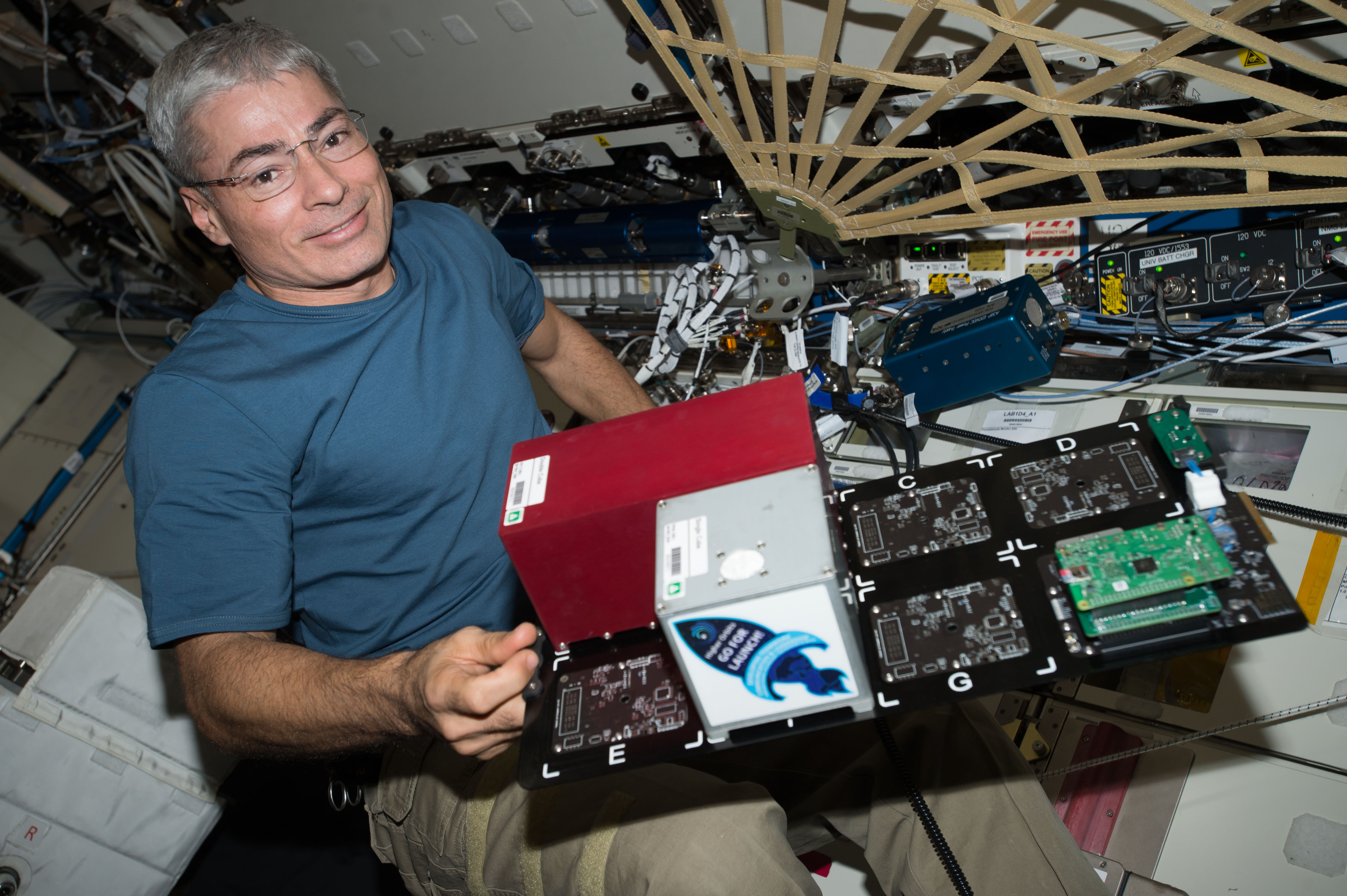 Flight Engineer Mark Vande Hei swaps out a payload card from the TangoLab-1 facility and places into the TangoLab-2 facility. TangoLab provides a standardized platform and open architecture for experimental modules called CubeLabs. CubeLab modules may be developed for use in 3-dimensional tissue and cell cultures.